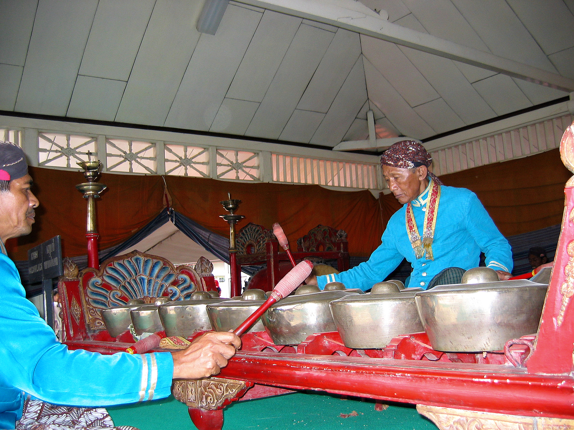 Bonang_of_Gamelan_Sekati,_Yogyakarta.jpg own work 2004 Giovanni Sciarrino